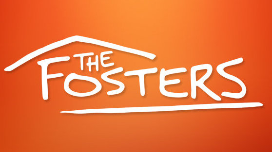 Logo for the US television show The Fosters